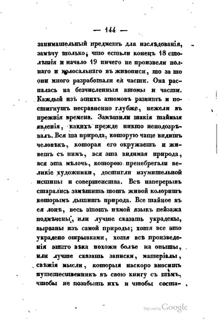 The second page of the article "The last day of Pompeii" from "Arabesques" by Nikolai Gogol (1835)